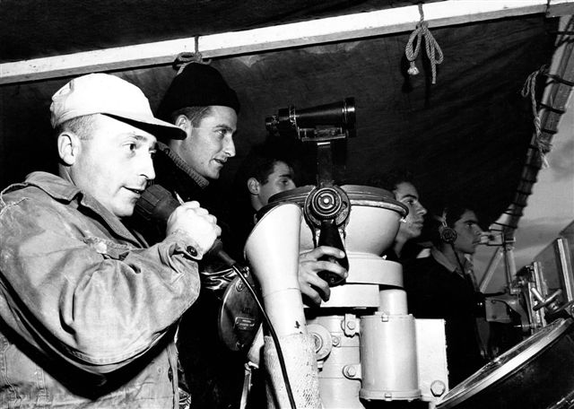 Cmr Kimchy on the bridge of INS Haifa K-38